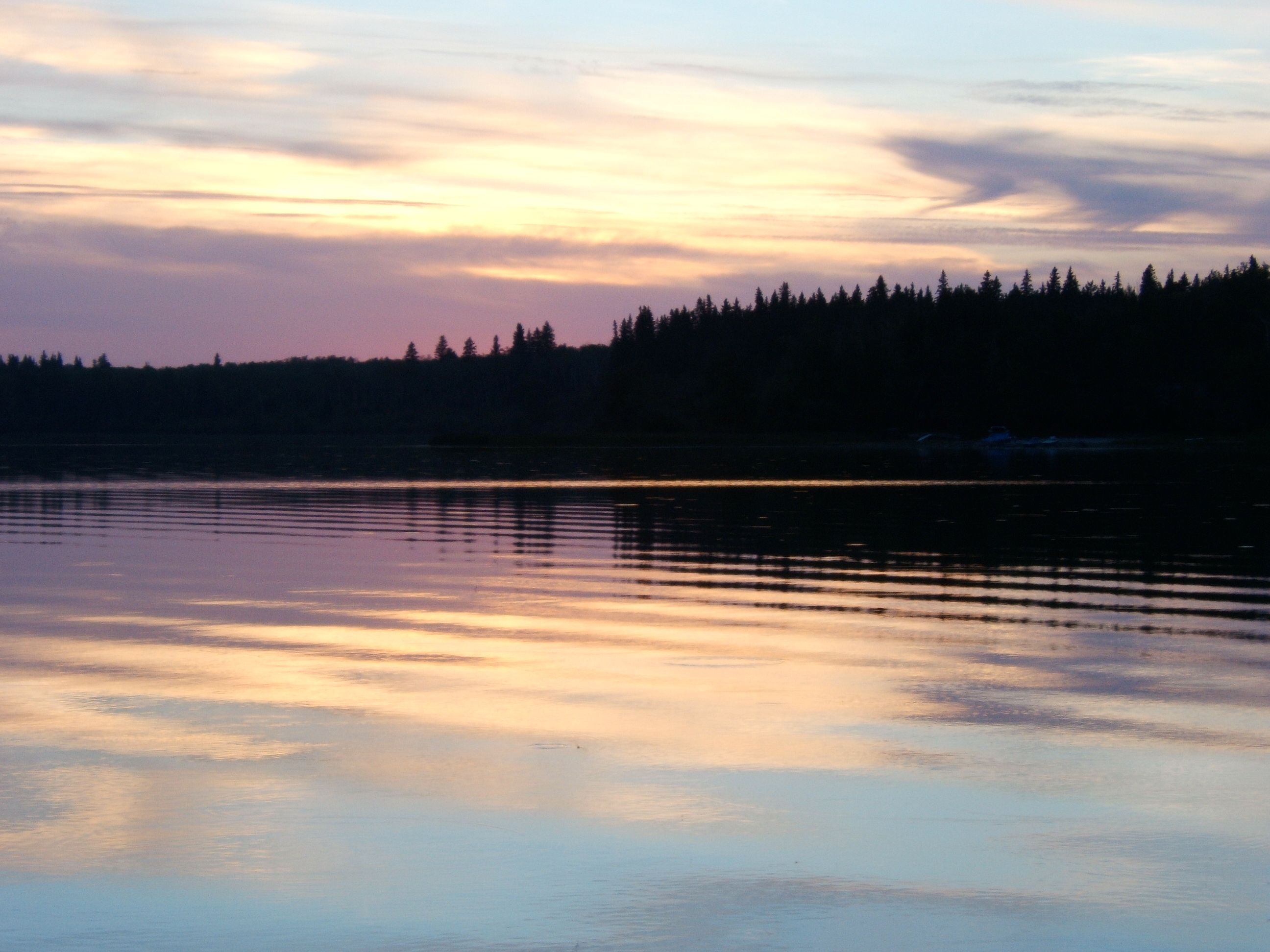 I took this picture.